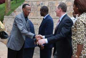 President Kagame and Paul Farmer at Butaro opening.